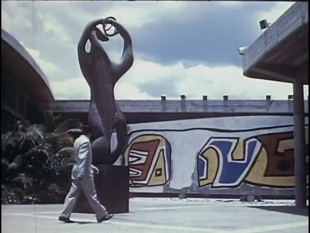 Jim visits Plaza Cubierta in Assignment: Venezuela